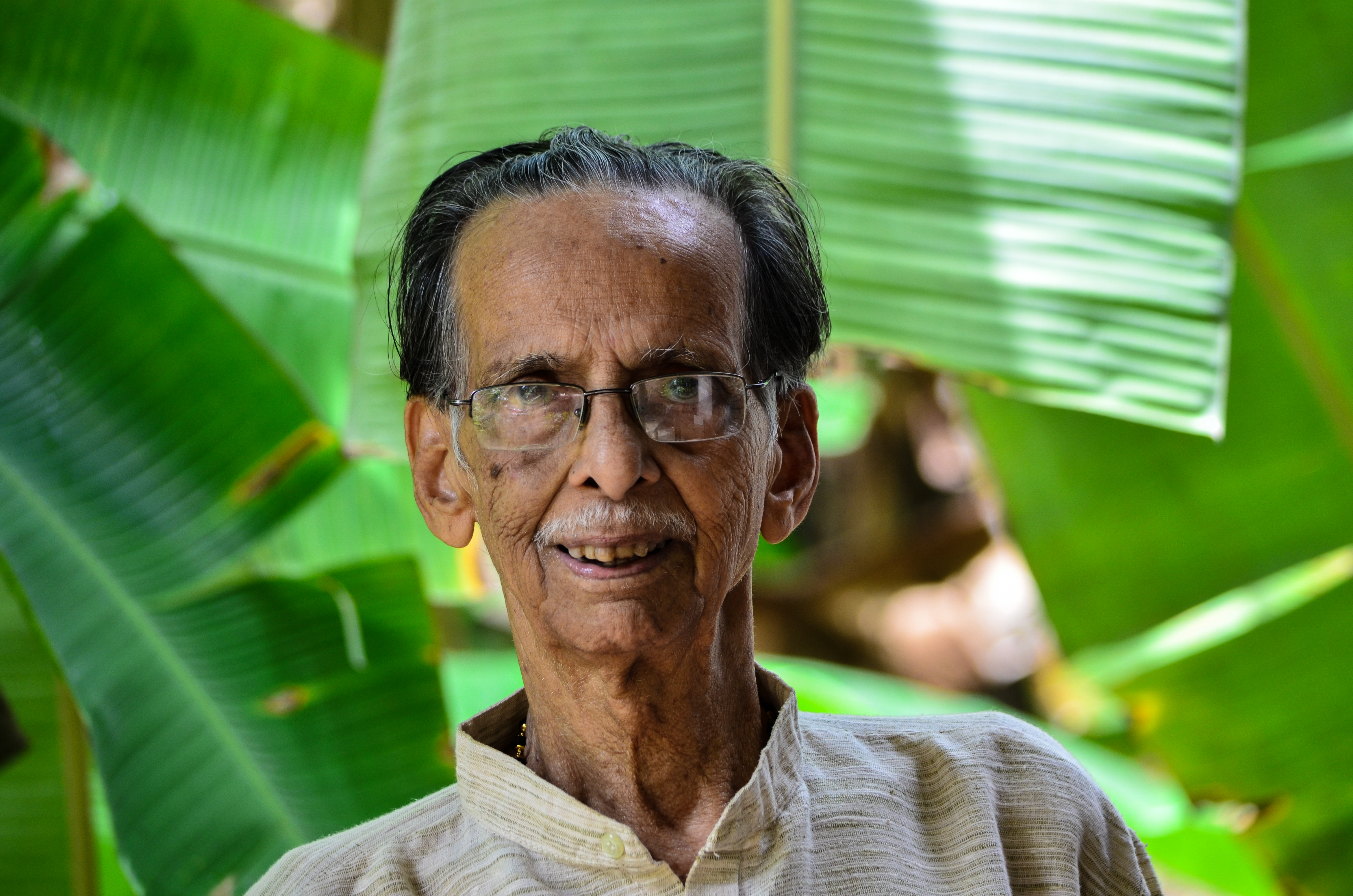 Kavalam Narayana Panicker കാവാലം നാരായണ പണിക്കര്‍